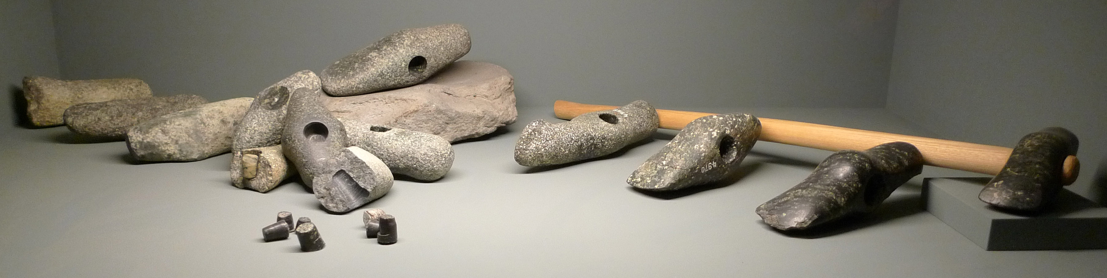 A stone axe in various stages of manufacture, from left to right (finished axe with modern wooden handle). The stone heads are from the Neolithic settlement of Vinelz on Lake Biel, Switzerland, c. 2700 BC.